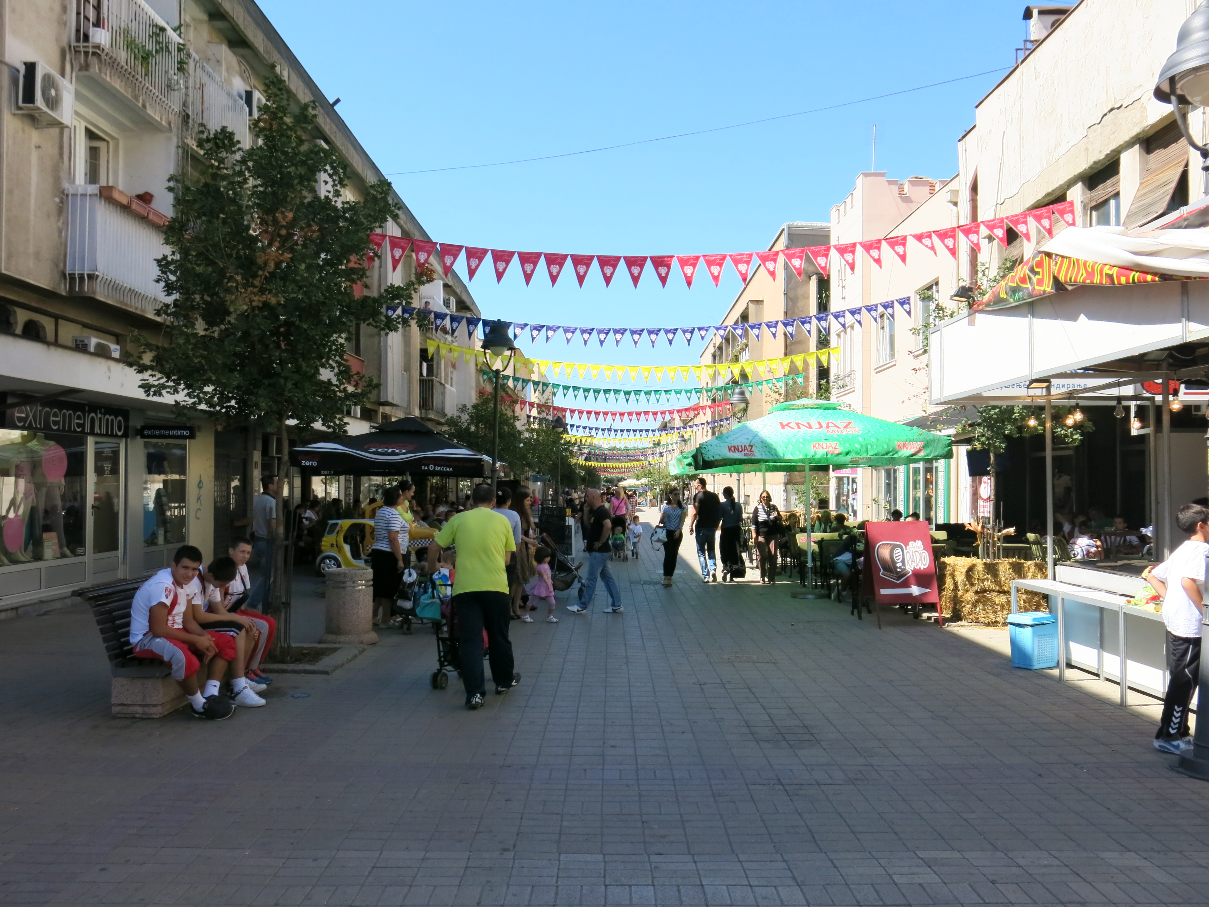 Smederevo, King Peter I Street